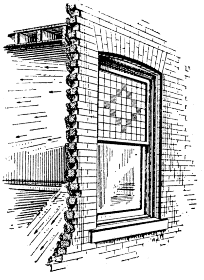 Window showing prism light transom refracting light upwards to light the depths of the room behind.